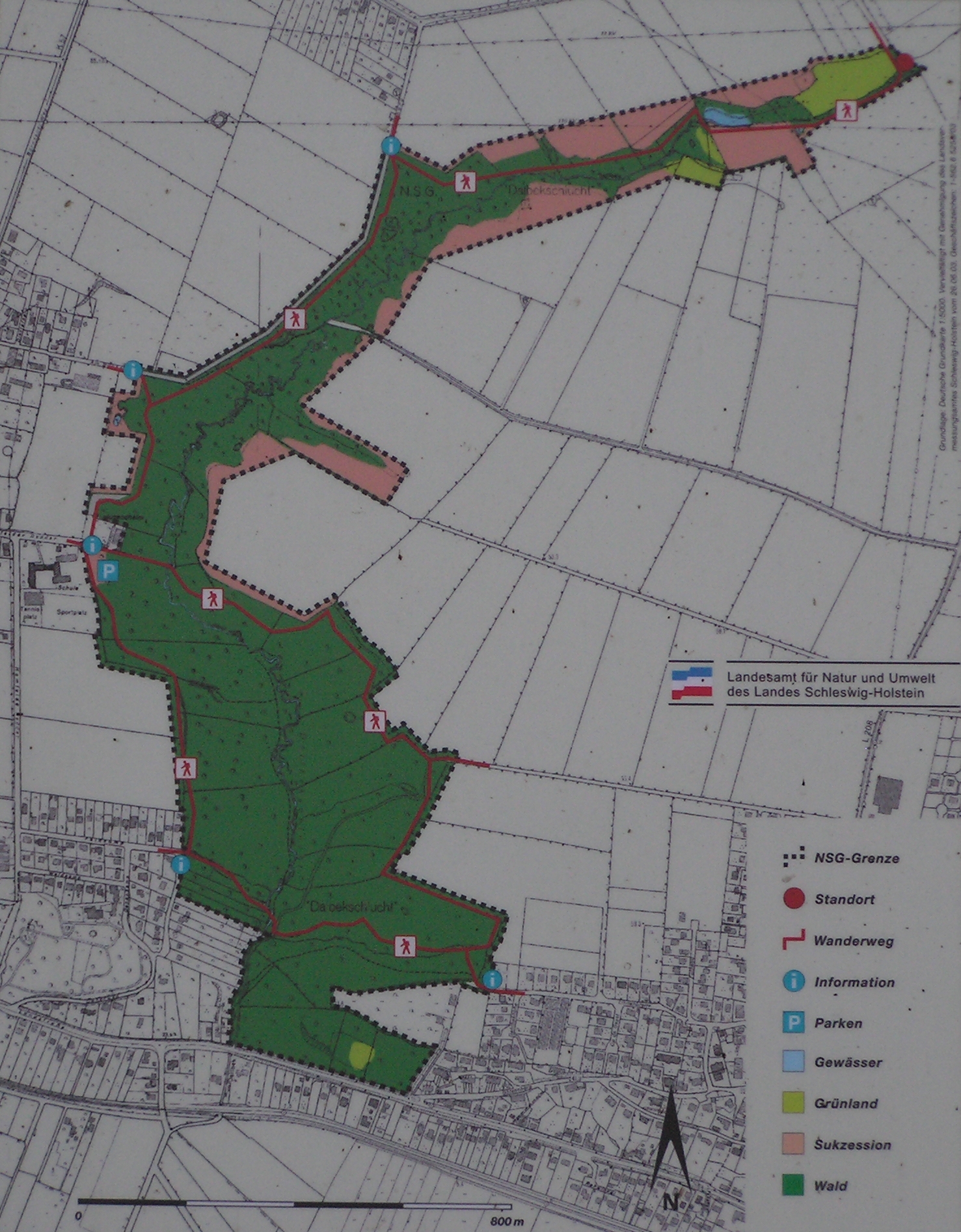 Map of the Dalbekschlucht, crop of a sign, Germany